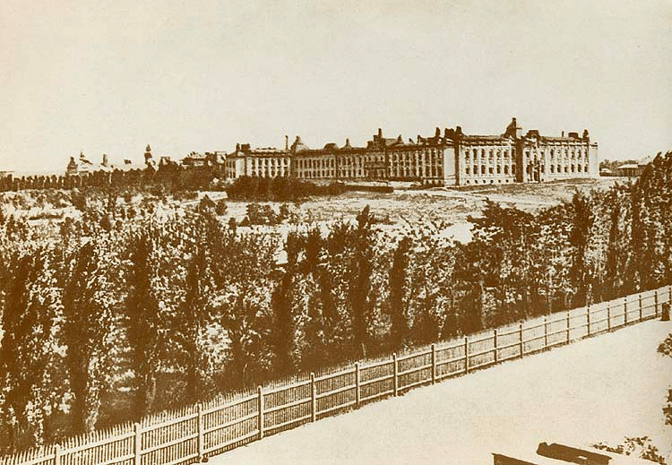 Kyiv Polytechnic Institute, Ukraine. Old photo.